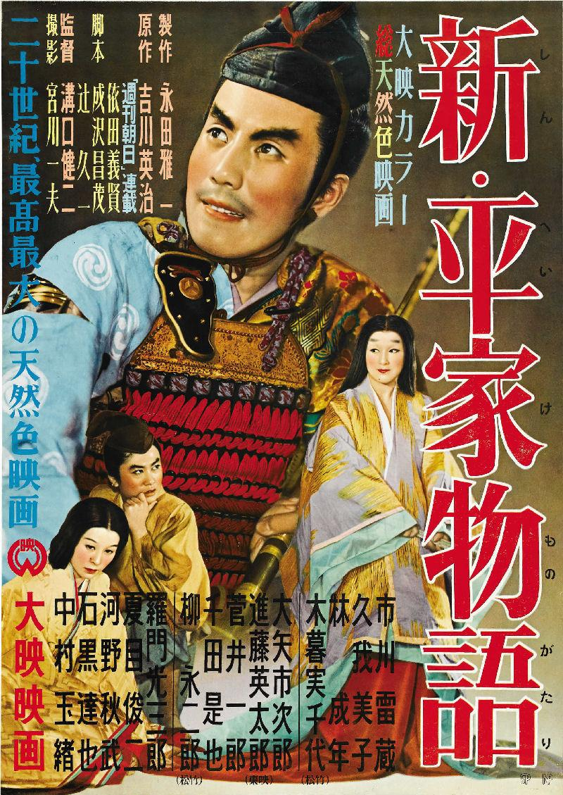 1955 Japanese movie poster for 1955 Japanese movie Tales of the Taira Clan aka Taira Clan Saga (新・平家物語 Shin Heike monogatari.)